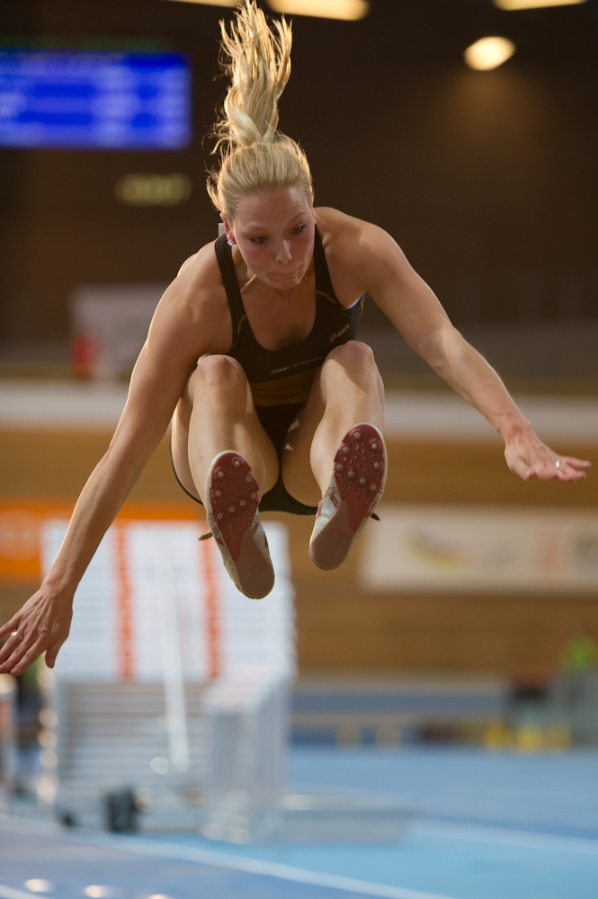 Nadine Broersen during an indoor meeting in Apeldoorn, the Netherlands, Jan. 2011